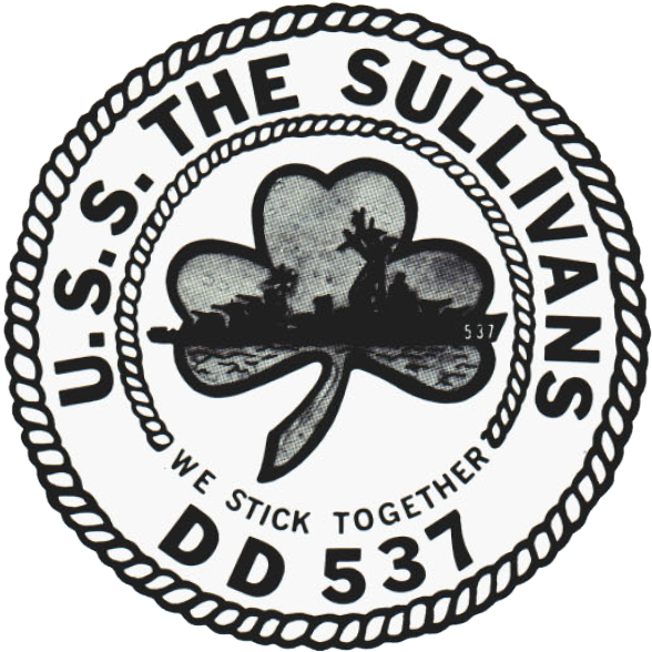 Emblem of the U.S. Navy destroyer USS The Sullivans (DD-537).